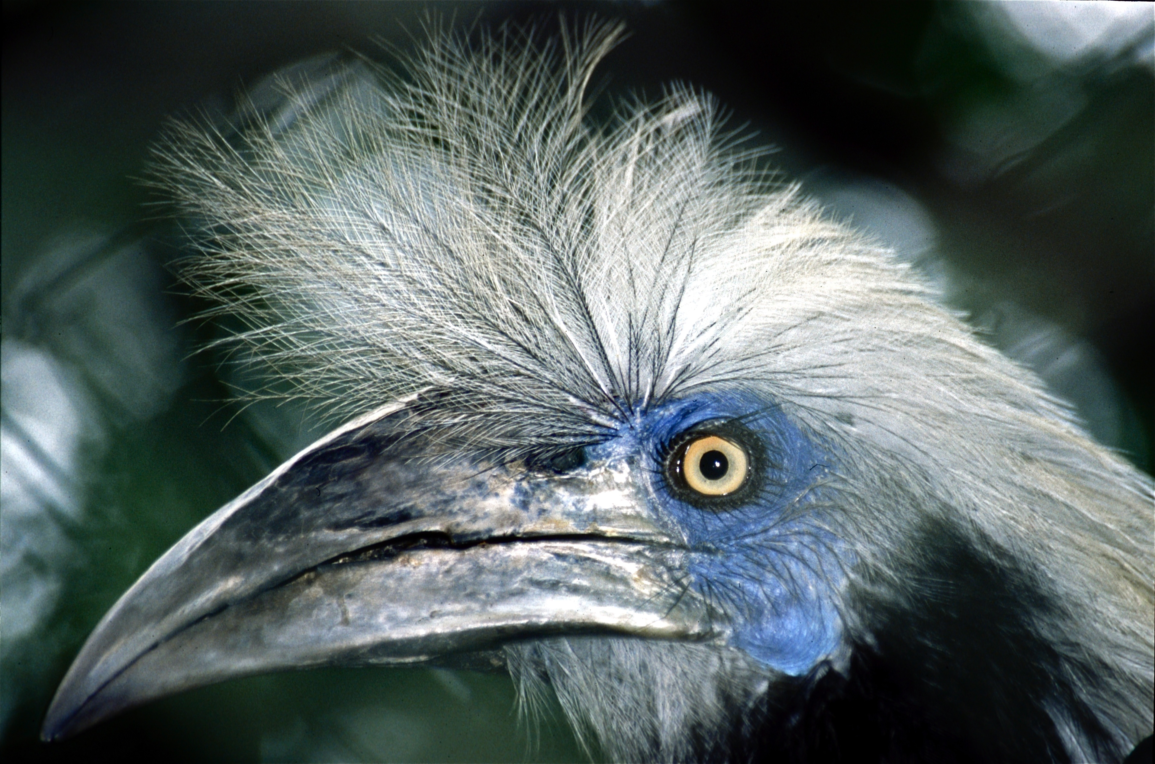 Zoo, Chiang-Mai, THAILAND Scanned Slide from 2003